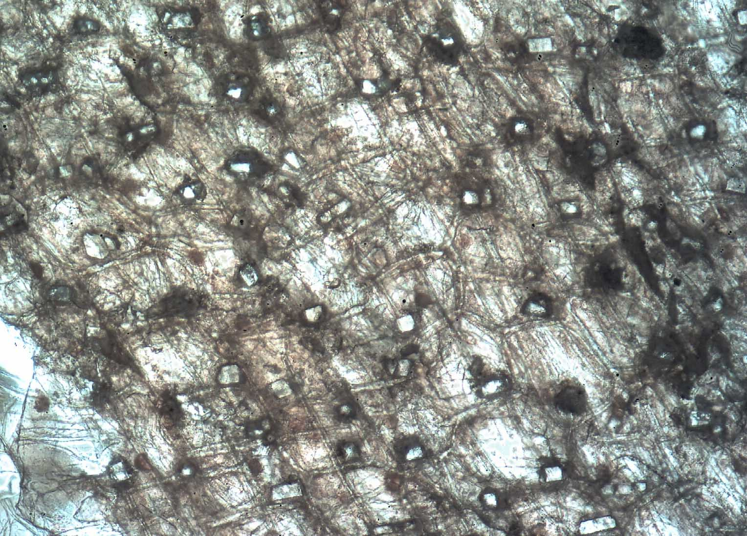 Calcium Oxalate crystals in onion. Crystals known as druse. 100 x magnification